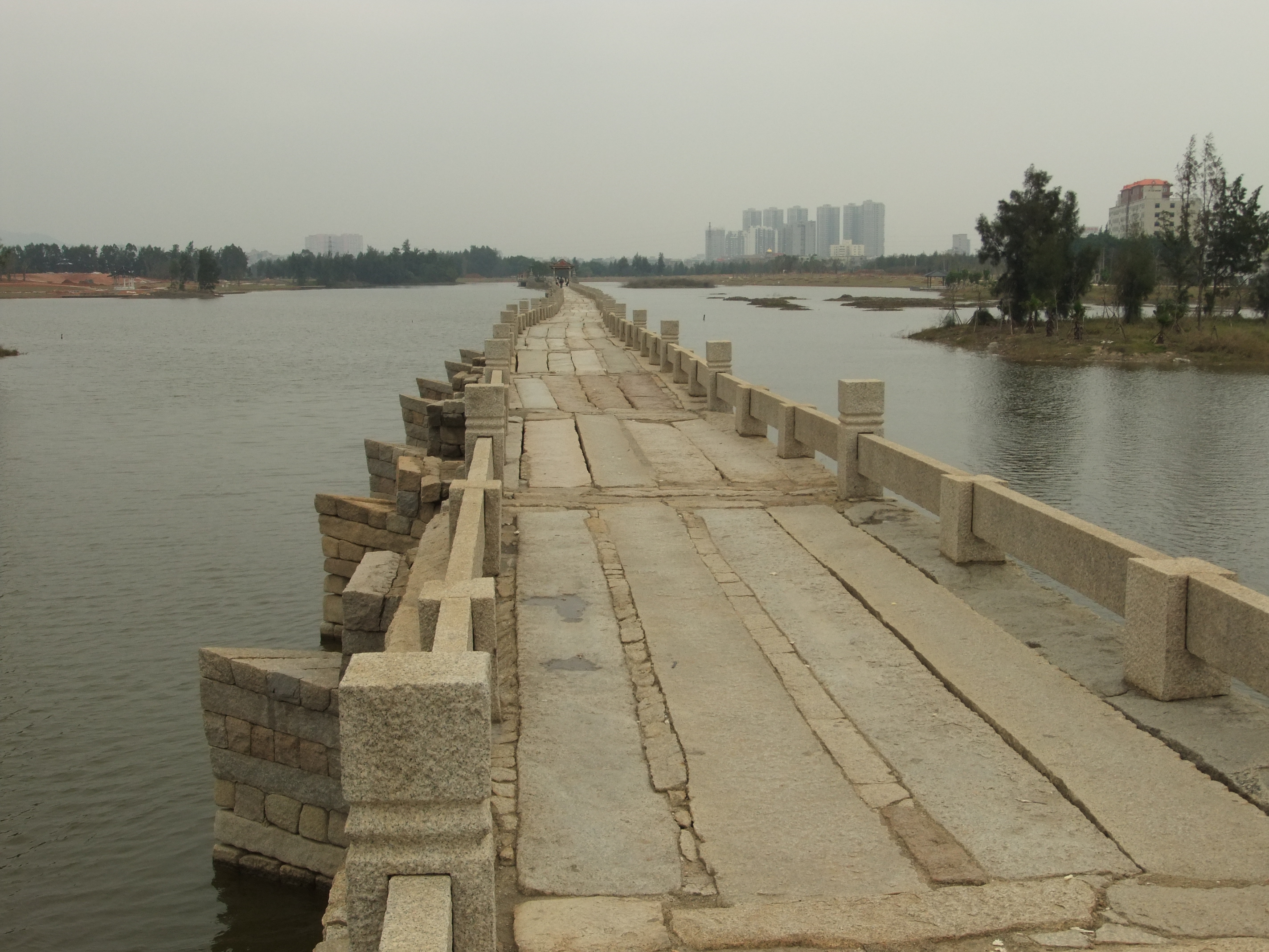 Anping Bridge near its westrn end (Shuitou Town).